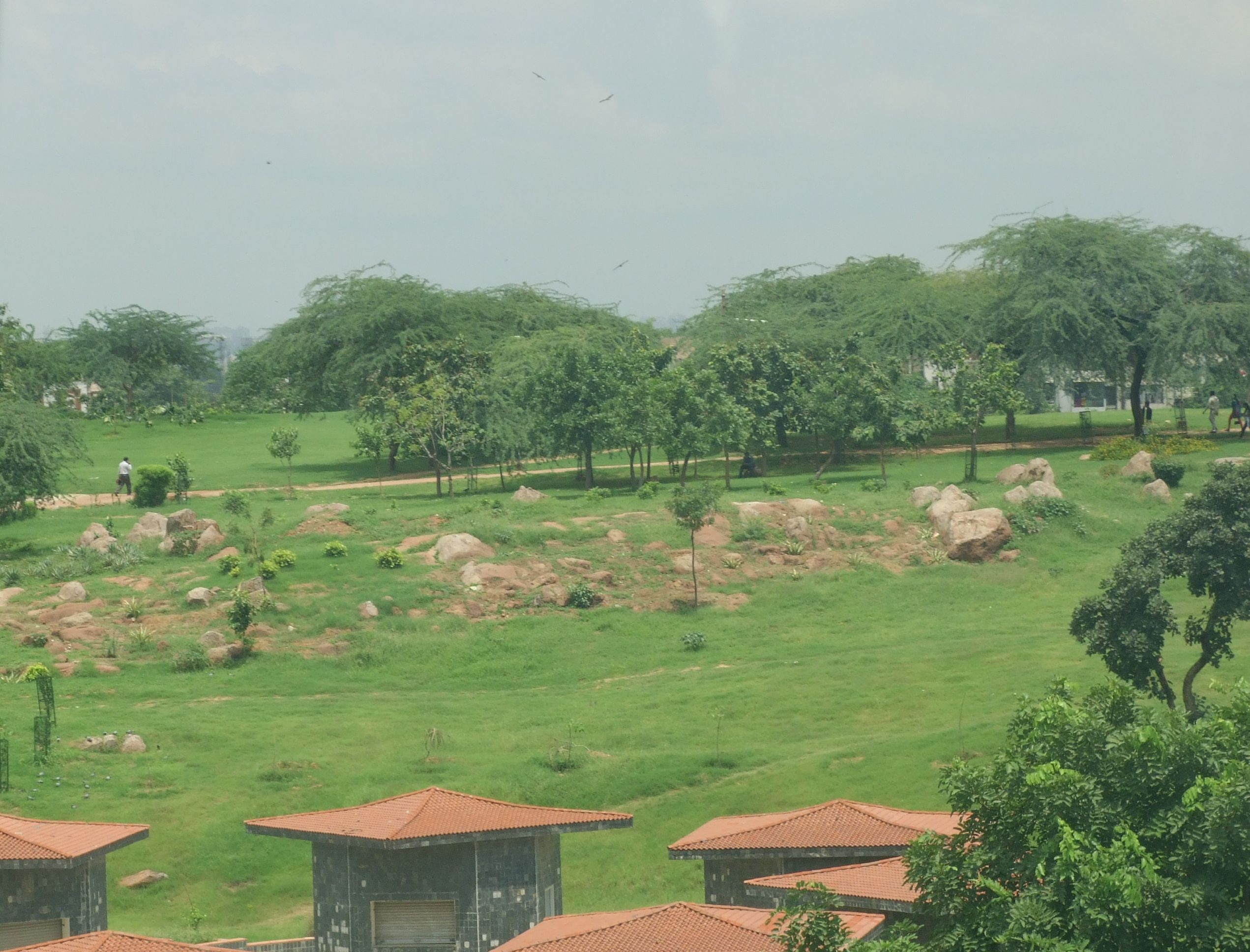 Aartha Kunj Park, New Delhi